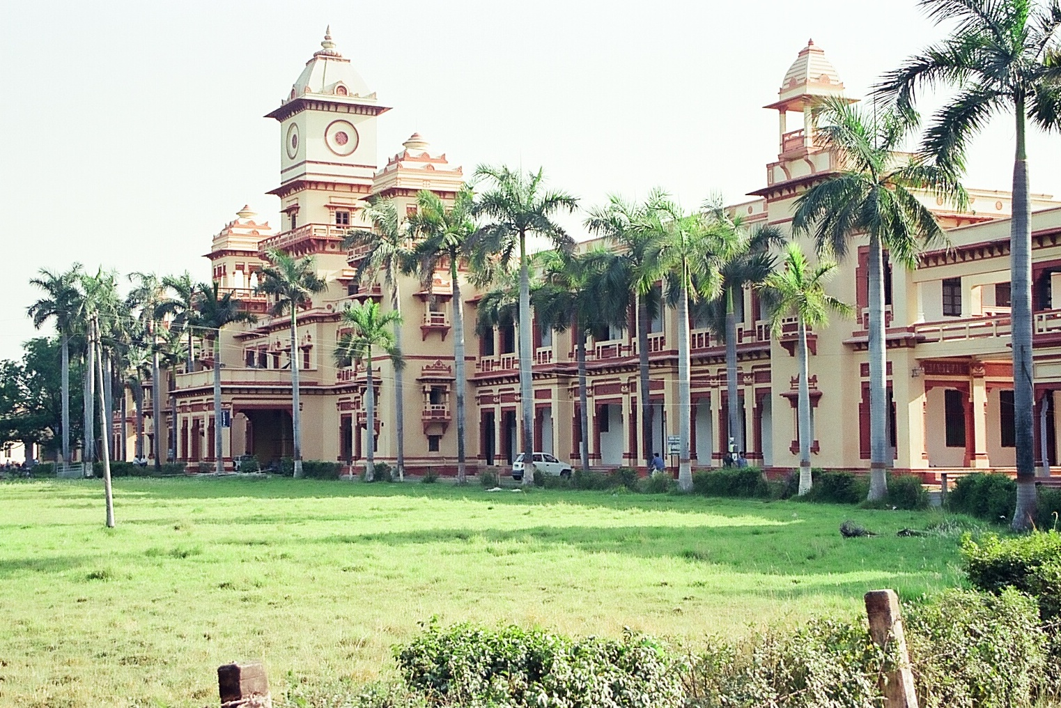 Electrical Engineering Department